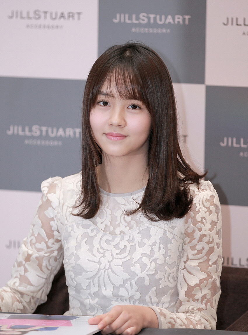 Kim So-hyun (South Korean actress, born 1999)